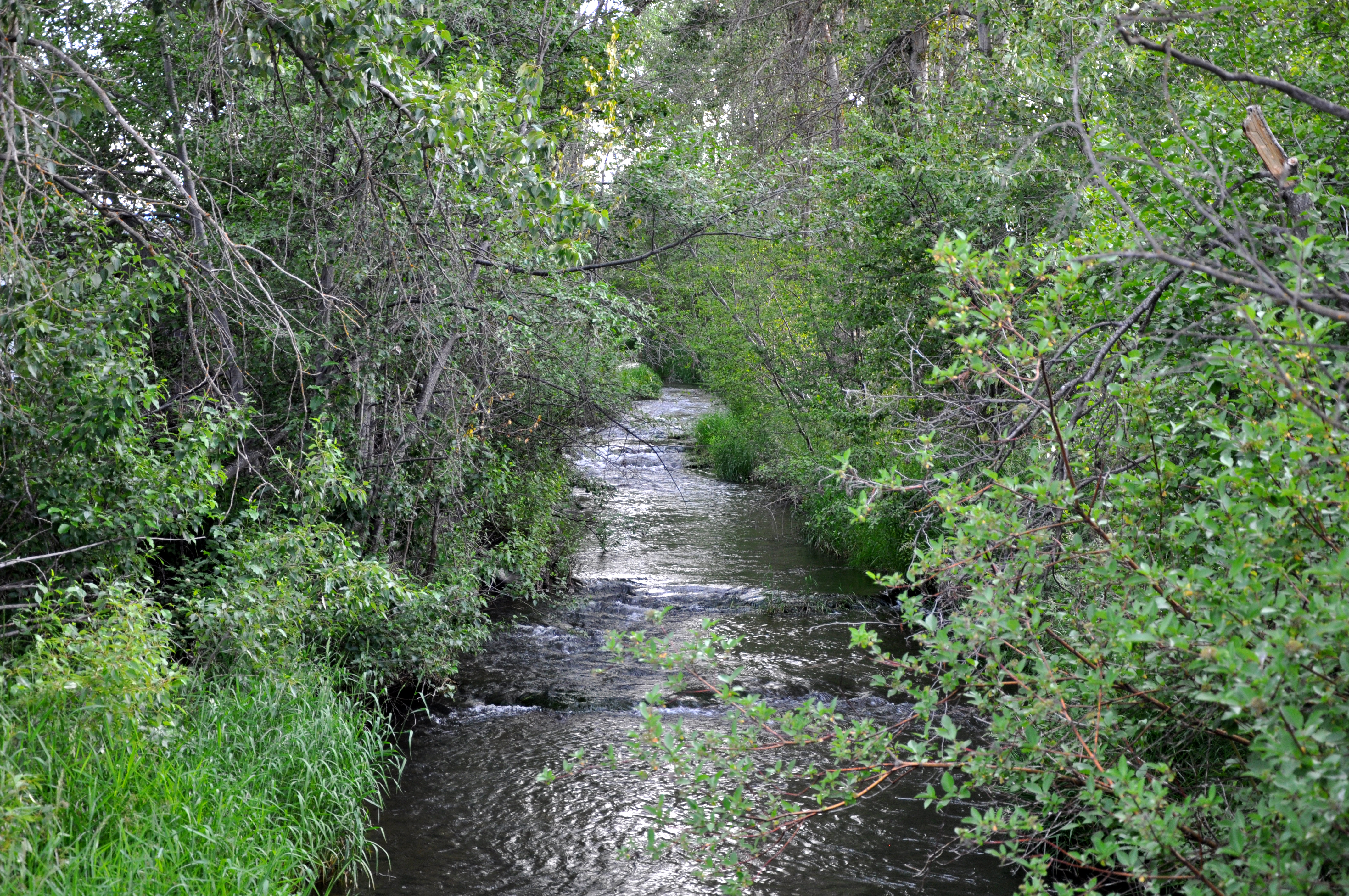 Fifteenmile Creek in the small city of Dufur in the U.S. state of Oregon. View is upstream from a bridge carrying North Main Street.